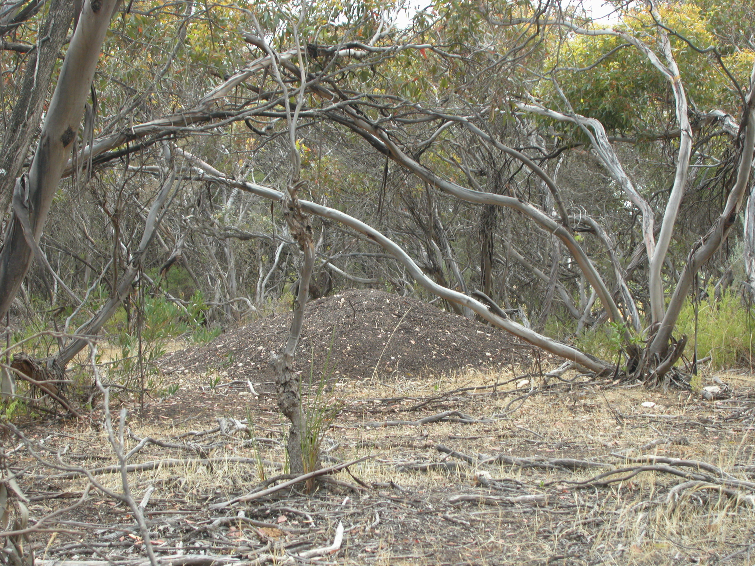 Malleefowl, Leipoa ocellata, nest mound.